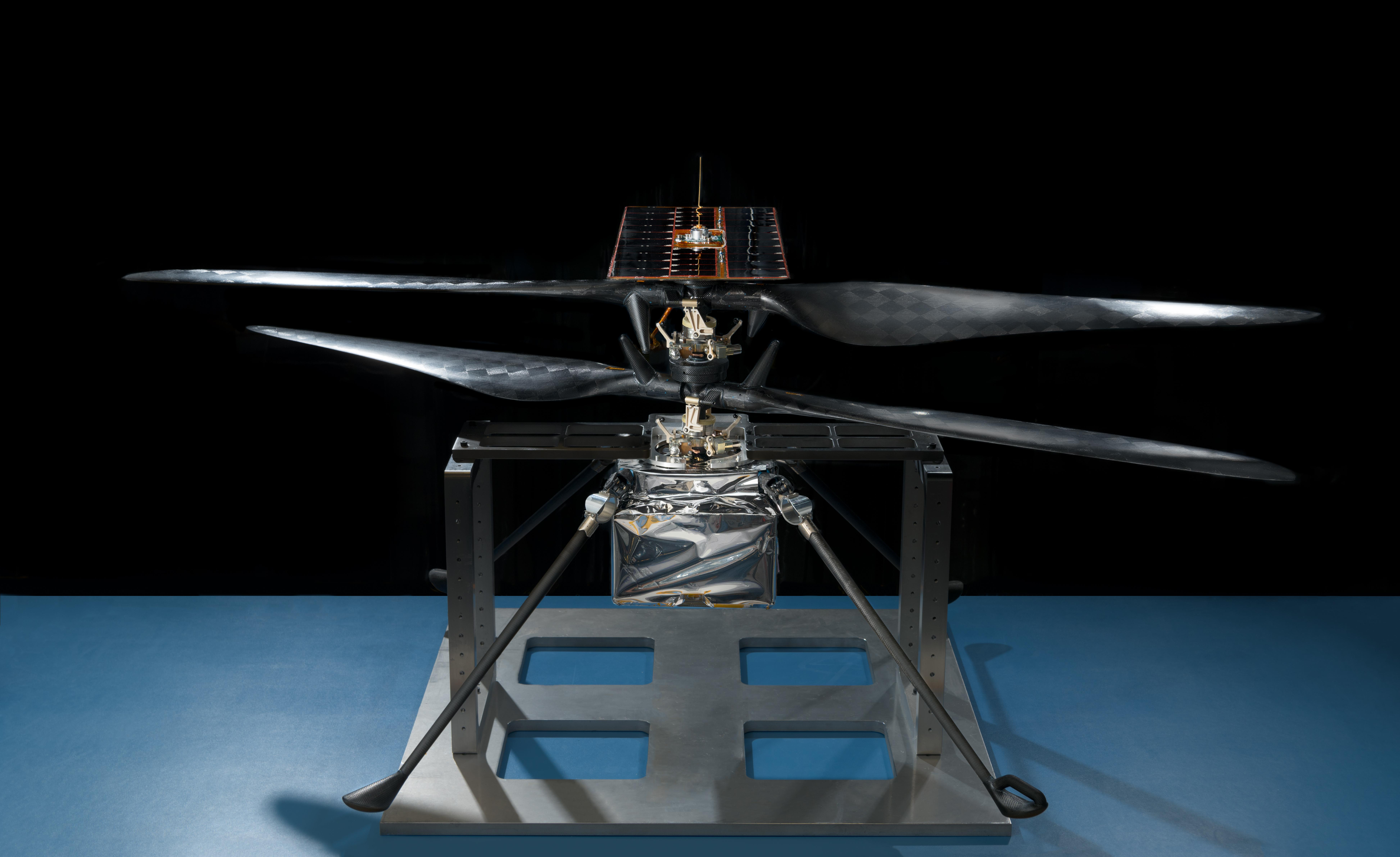 This image of the flight model of NASA's Mars Helicopter was taken on Feb. 14, 2019, in a cleanroom at NASA's Jet Propulsion Laboratory in Pasadena, California. The aluminum base plate, side posts, and crossbeam around the helicopter protect the helicopter's landing legs and the attachment points that will hold it to the belly of the Mars 2020 rover. I